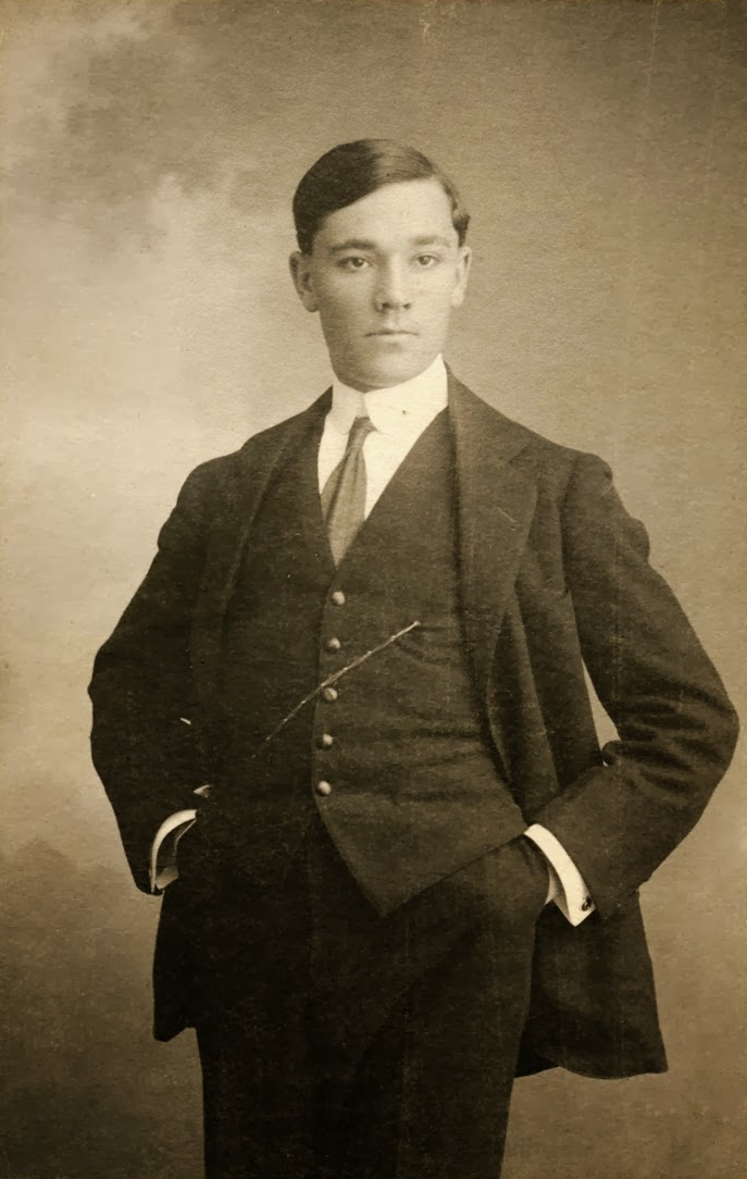 Portrait photograph of Portuguese composer and pianist António Fragoso (1897-1918)